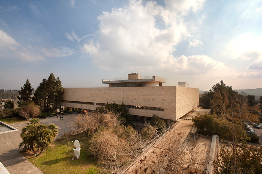 Image of the building of the National Library of Israel